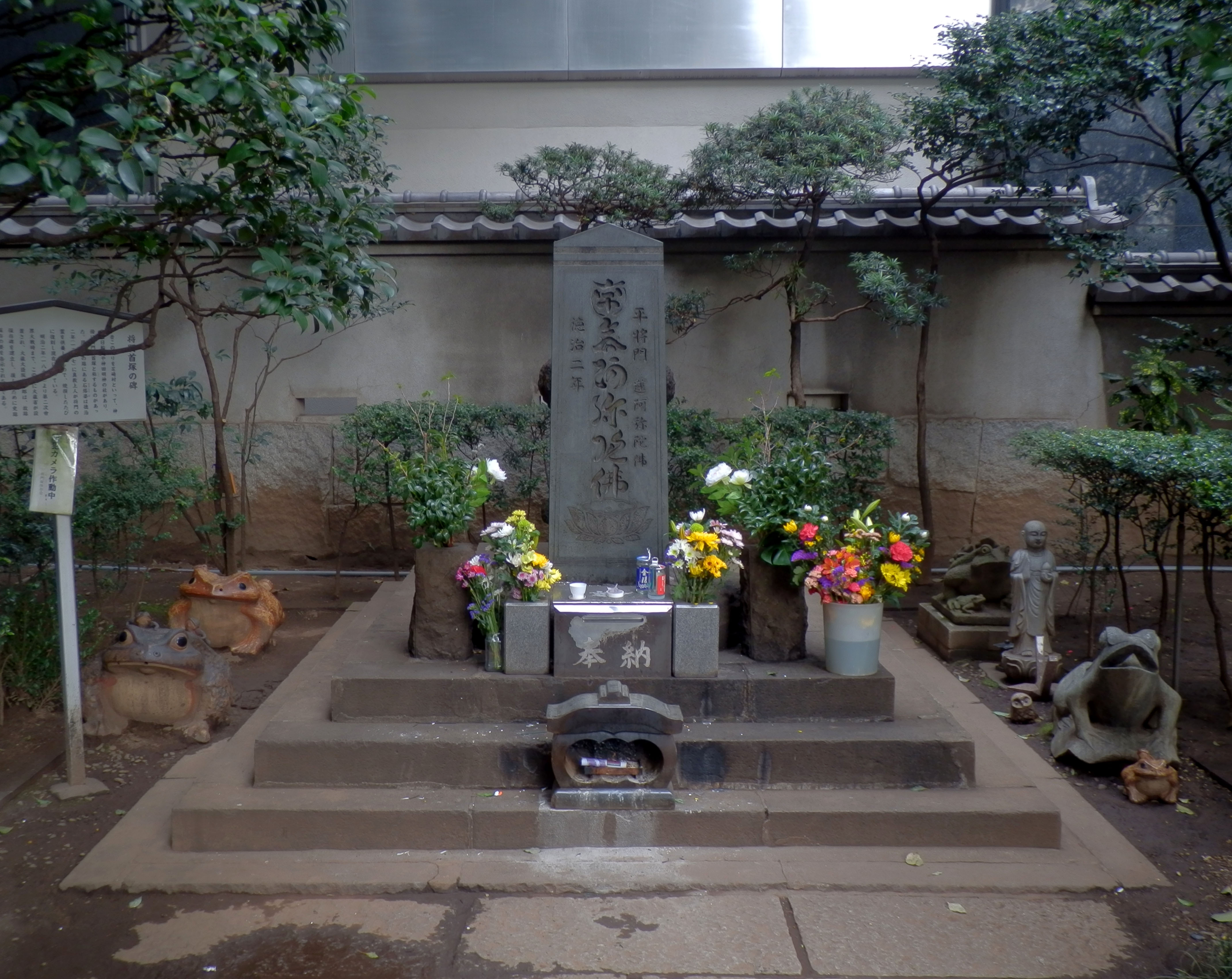 Gravestone of the head of Taira no Masakado (Japanese rebellion leader in 10th century)